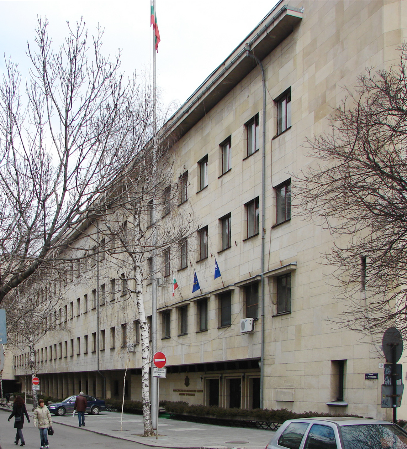 Ministry of Internal Affiars of Bulgaria